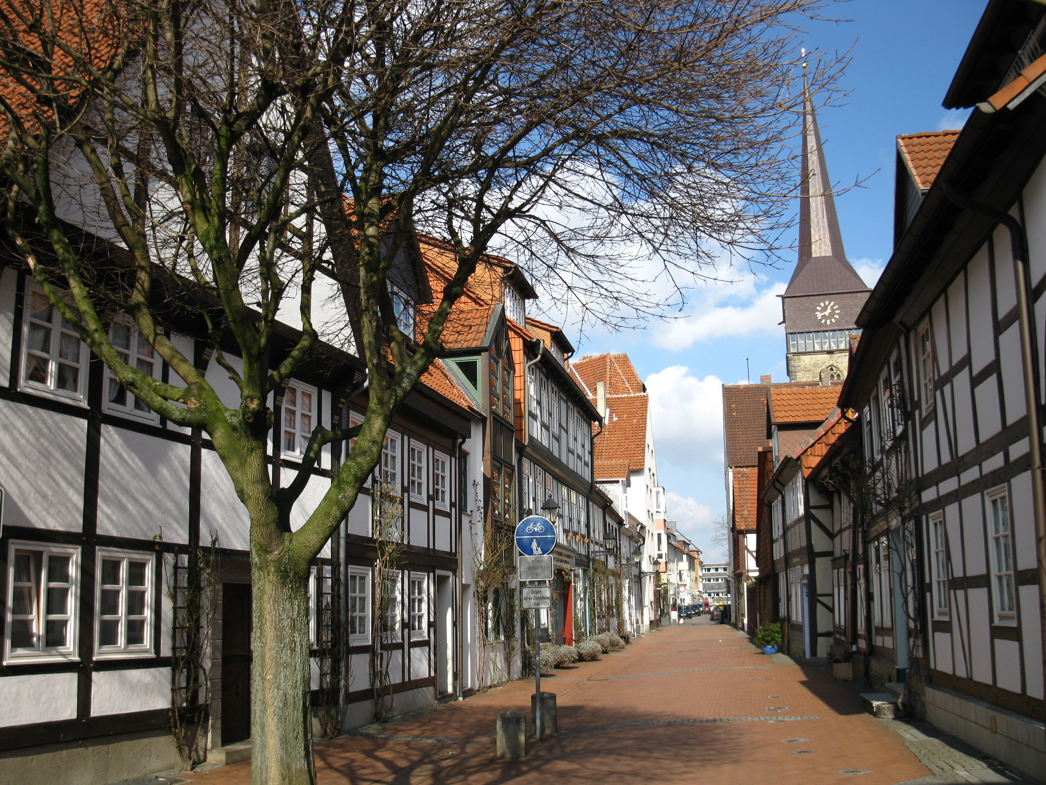 Knollenstrasse, Hildesheim